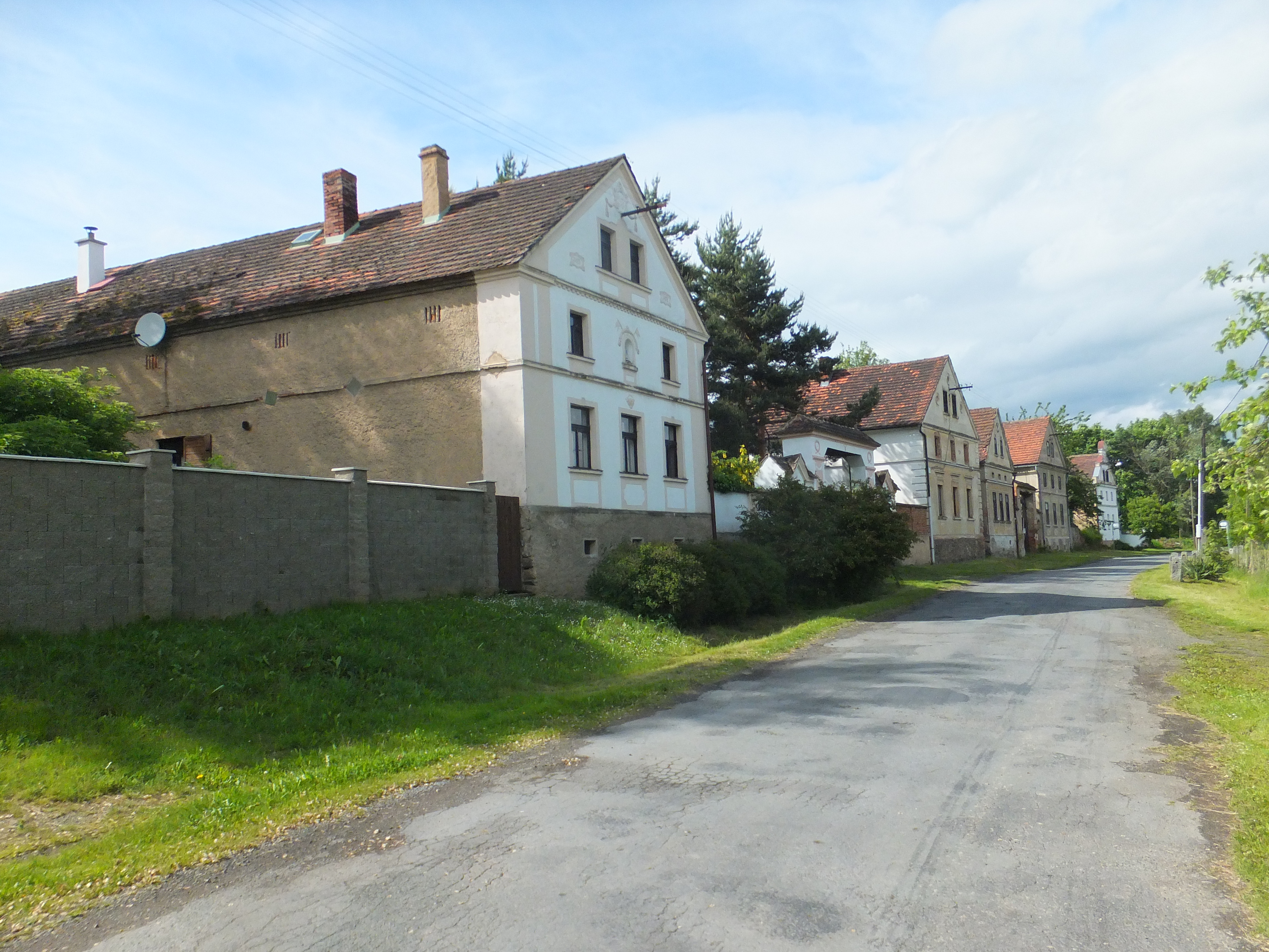 The main street in Krtín